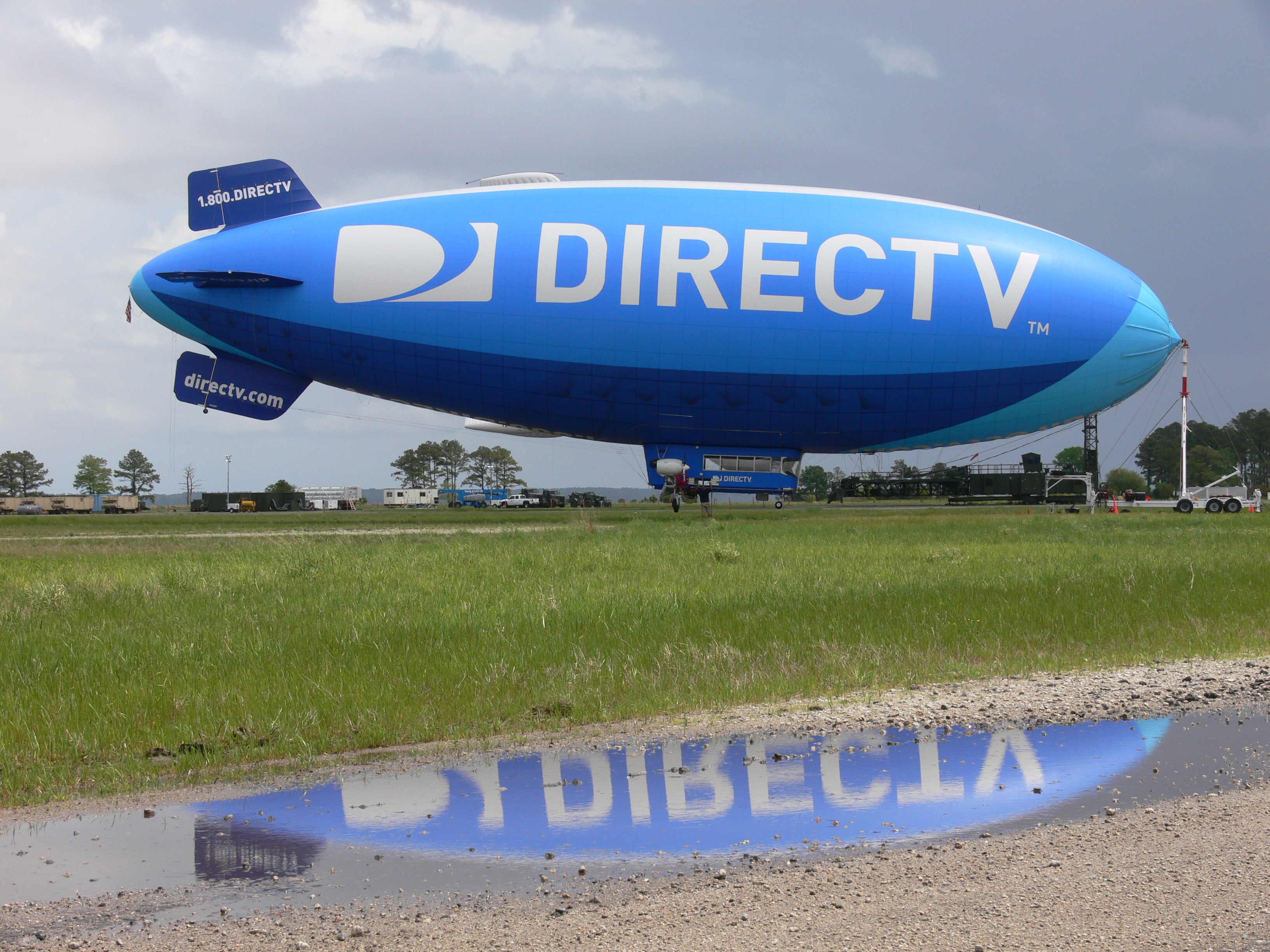 American Blimp Corp A-170LS airship, of DIRECTV, in Elizabeth City, NC